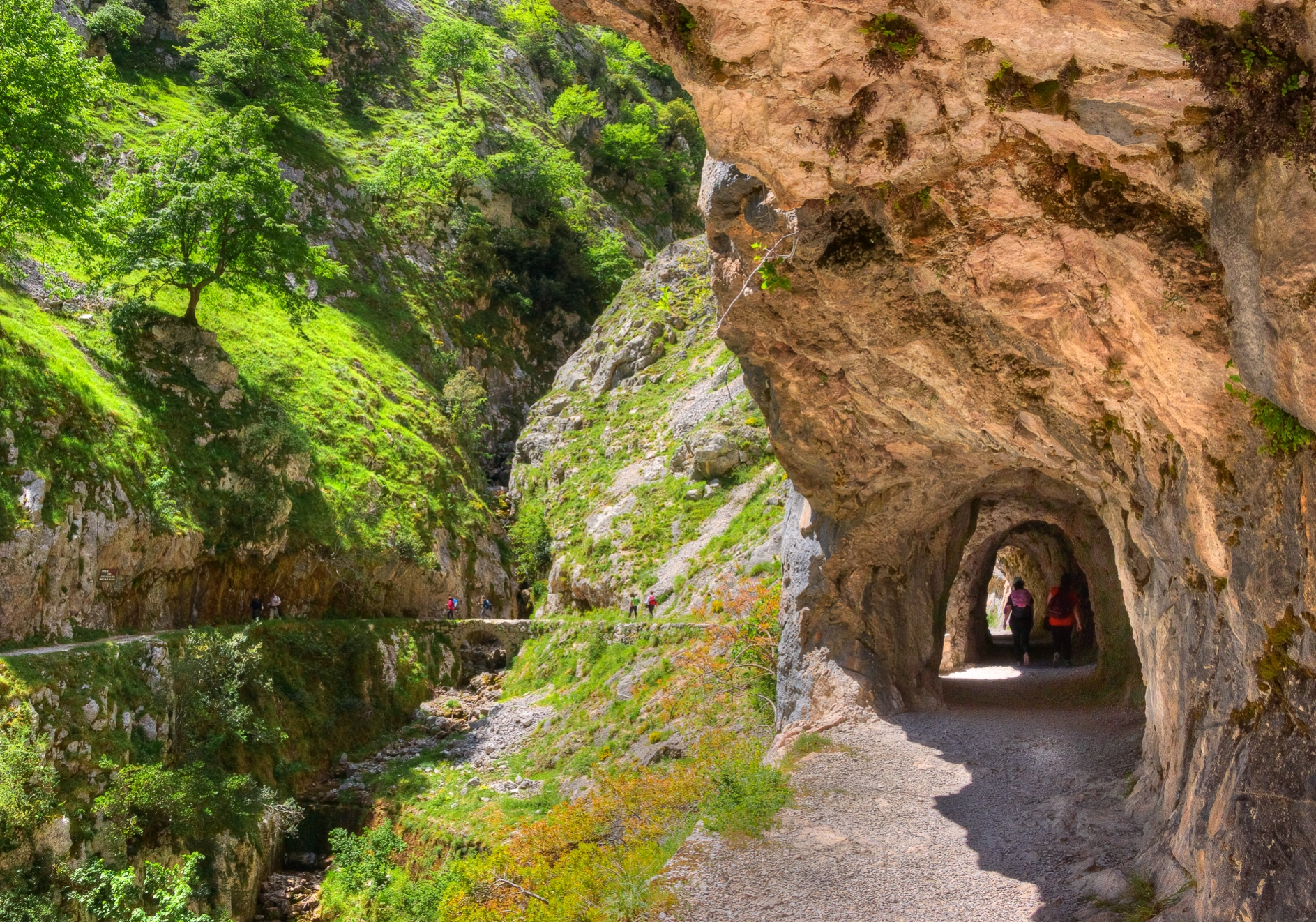 Picture along the Ruta del Cares